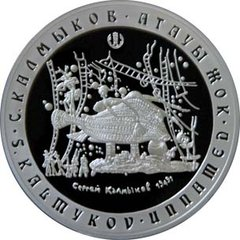 Image of the commemorative coin (the head side) issued by the Mint of the Republic of Kazakhstan, dedicated to the Soviet/Russian painter Sergey Kalmykov